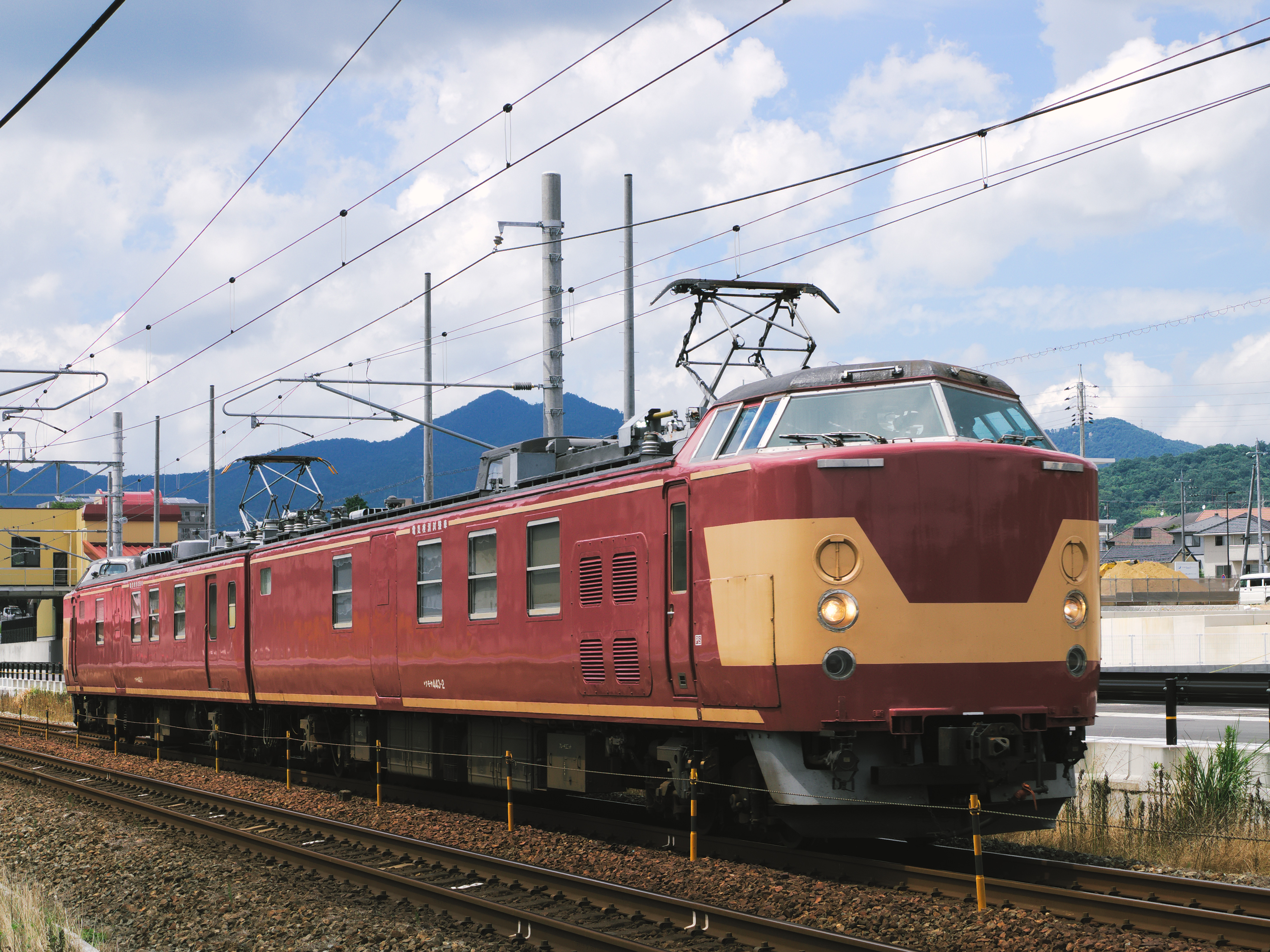 A JR West 443 series overhead wire inspection EMU KuMoYa 443-2 + KuMoYa 442-2